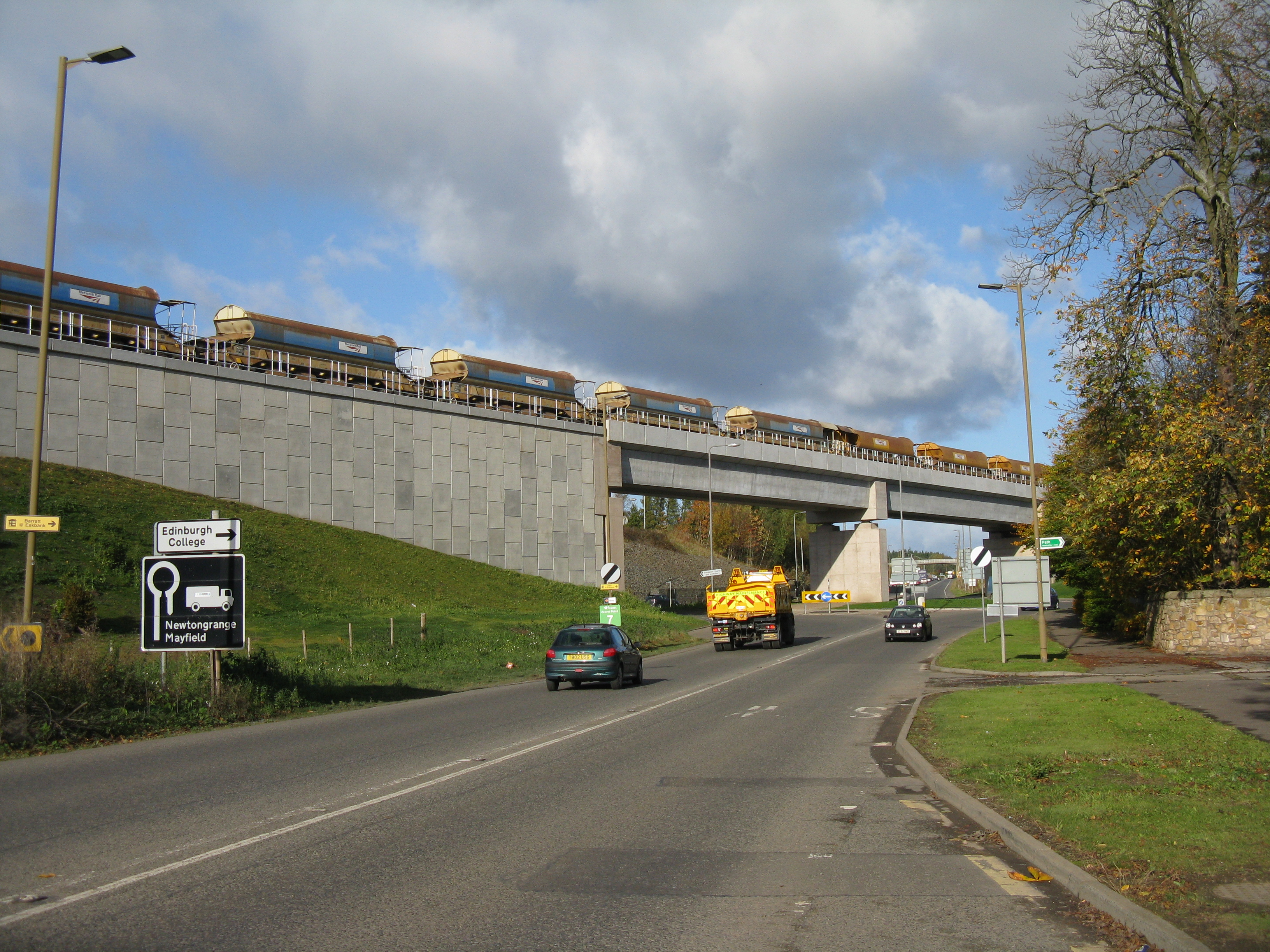 Train at Hardengreen